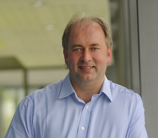 Professor N R Jennings